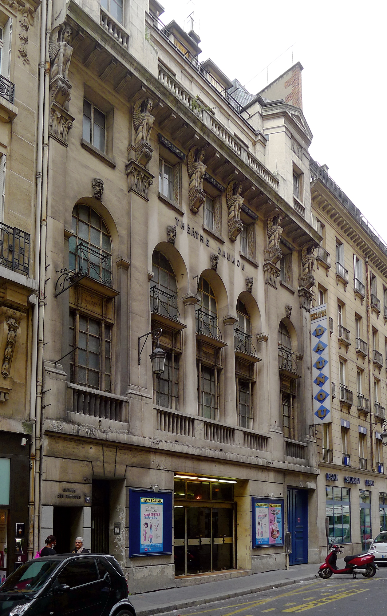 Daunou street - Paris